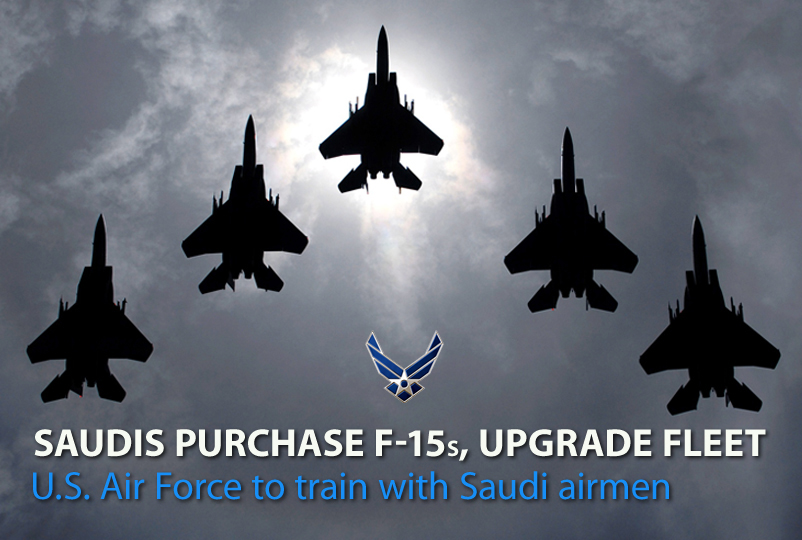 12/30/2011 - WASHINGTON (AFNS) -- Air Force officials announced the next chapter in a partnership with the Royal Saudi Air Force as the Kingdom of Saudi Arabia recently signed a $29.4 billion Foreign Military Sales Letter of Offer and Acceptance solidifying their plans to purchase 84 F-15SA fighter aircraft and upgrade their current fleet of 70 F-15S aircraft to the SA configuration.